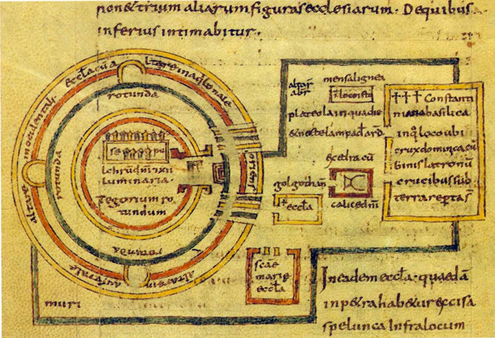 plan of the cherch of the holy sepulchre from Adomanàn's de locis santis, 9th century. Vienna, Österreichisches national bibliothek, codex 458, f. 4v.